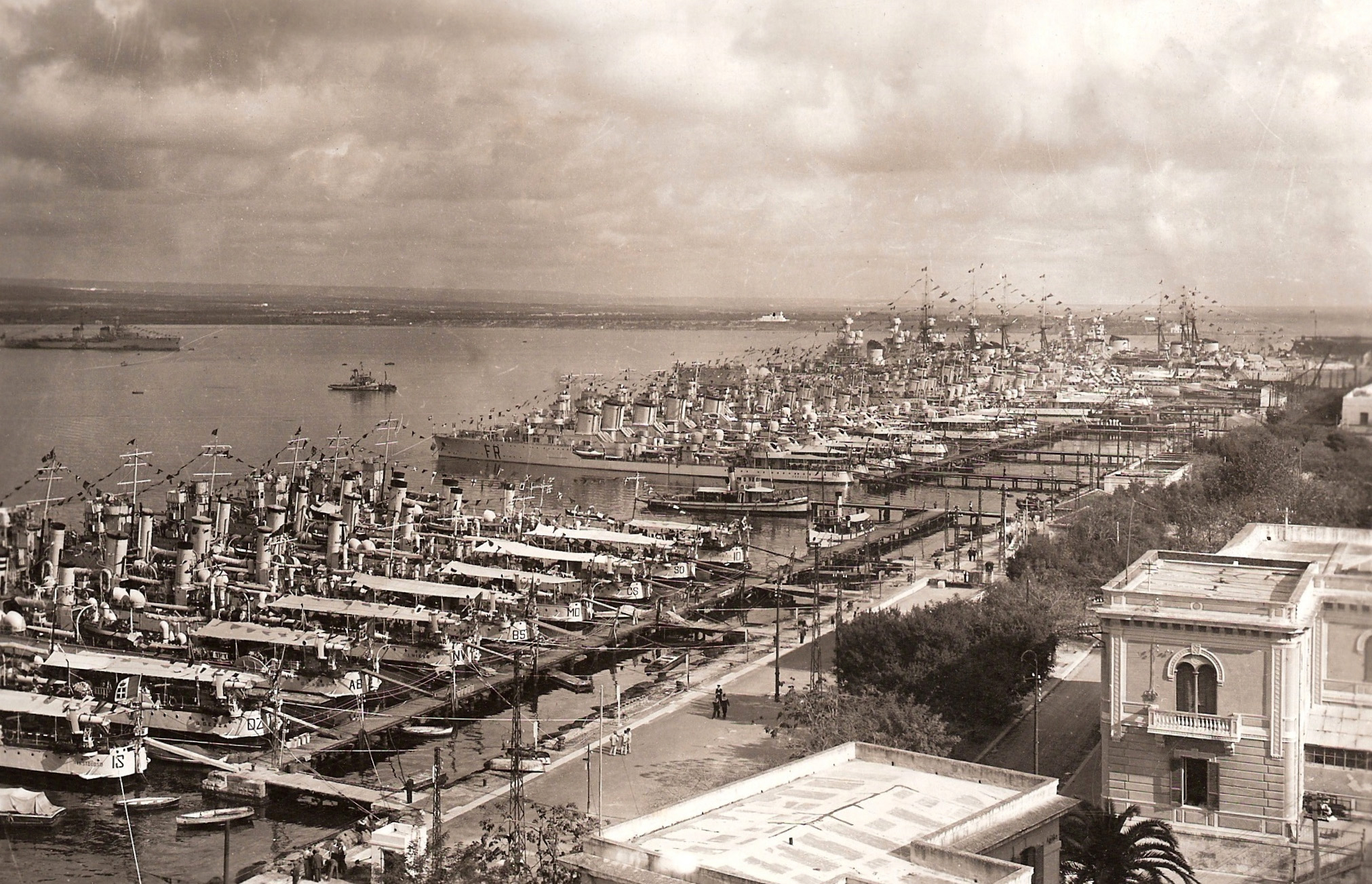 The First naval squad based in Taranto harbour in the 1930s. Image by Admiral Ernesto Burzagli (1873-1944). The original picture, scanned by Emiliano Burzagli, belongs to the Private archive of Burzaghi family, Italy. Photograph shows rows of ships including RN Freccia, a destroyer commissioned in 1931.